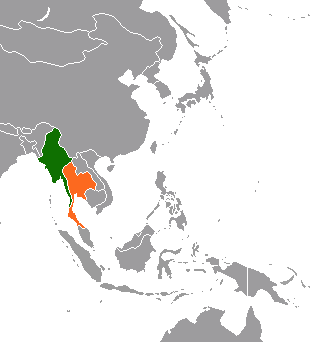 Burma and Thailand Locator Map